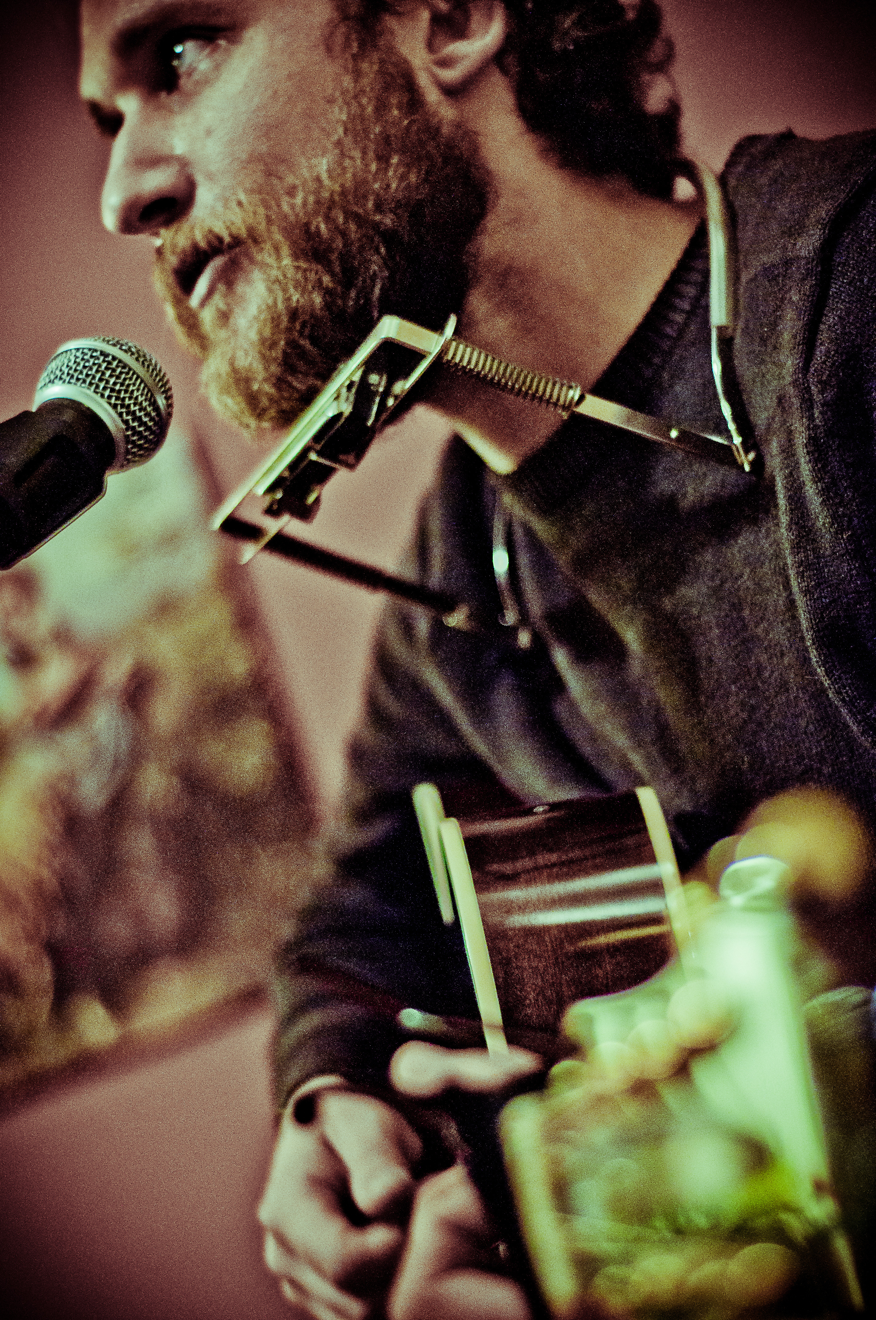 for more information please visit